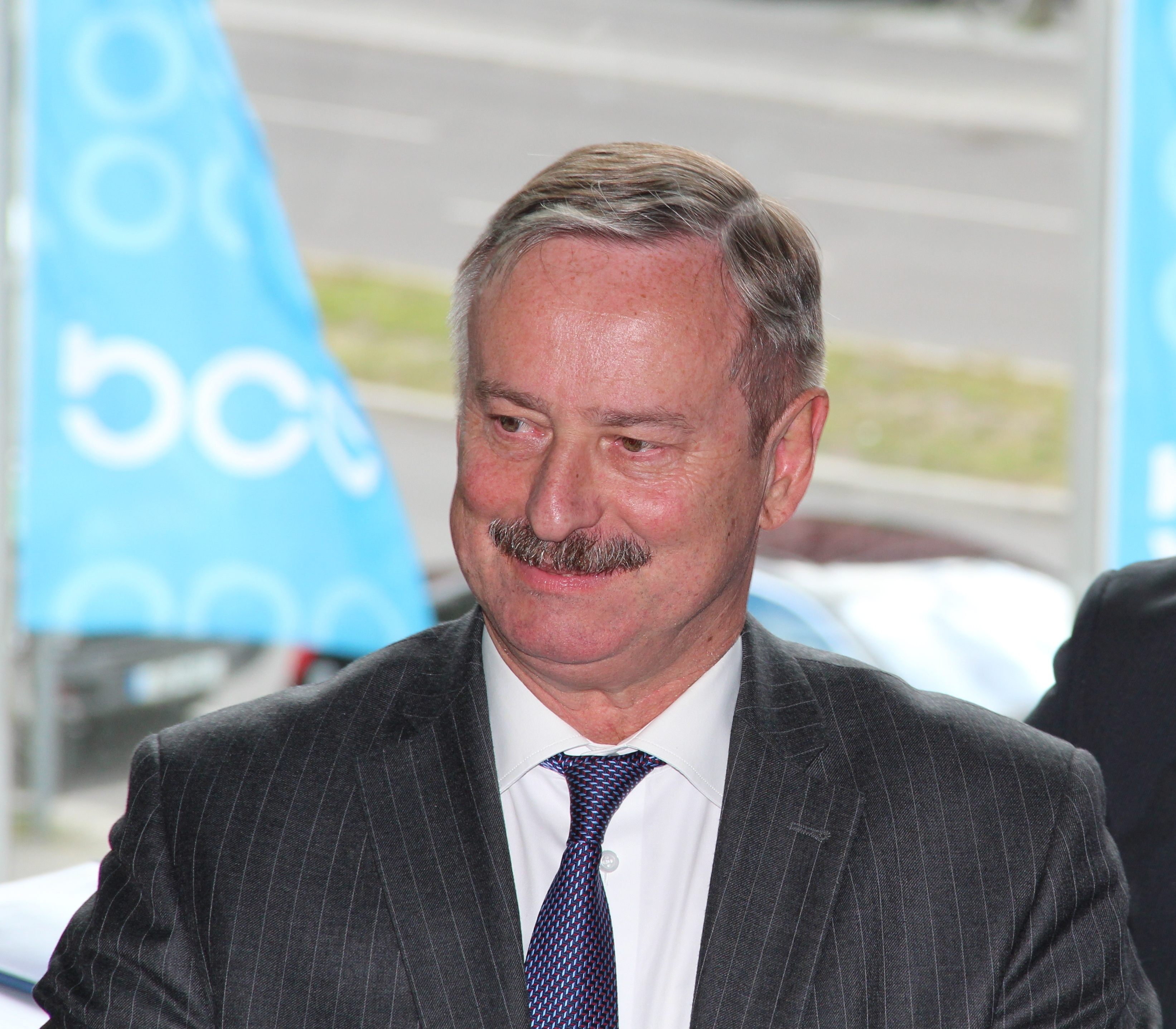 Siim Kallas, Vice President of EU and Commissaire for Traffic